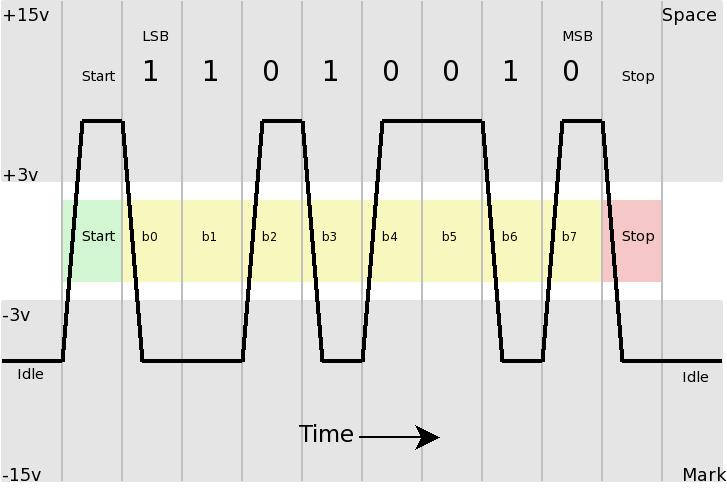 Diagram of RS232 signalling as seen when probed by an Oscilloscope for an uppercase ASCII "K" character (0x4b) with 1 start bit, 8 data bits, 1 stop bit